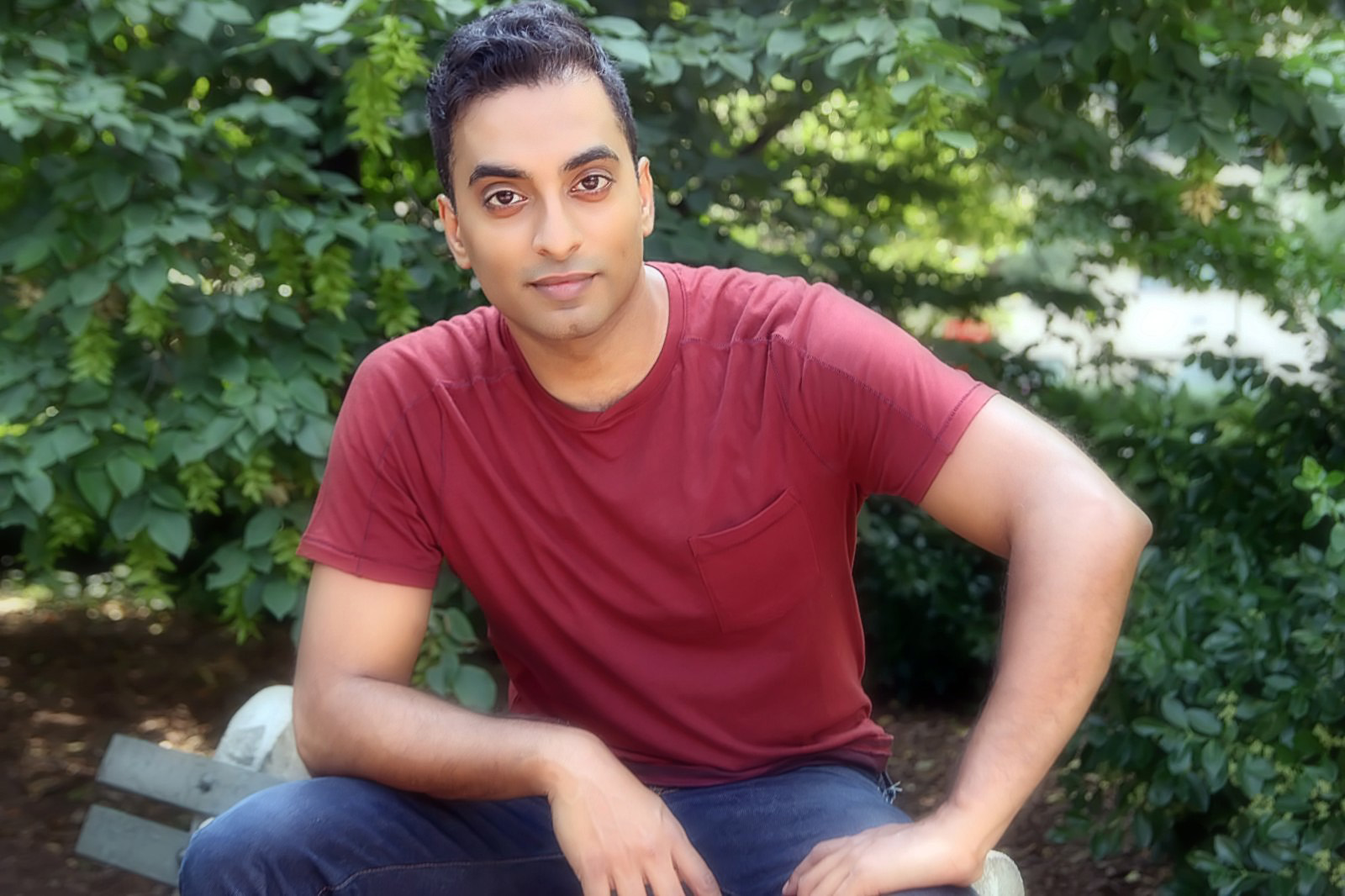 Manu Narayan Photo by Lia Chang